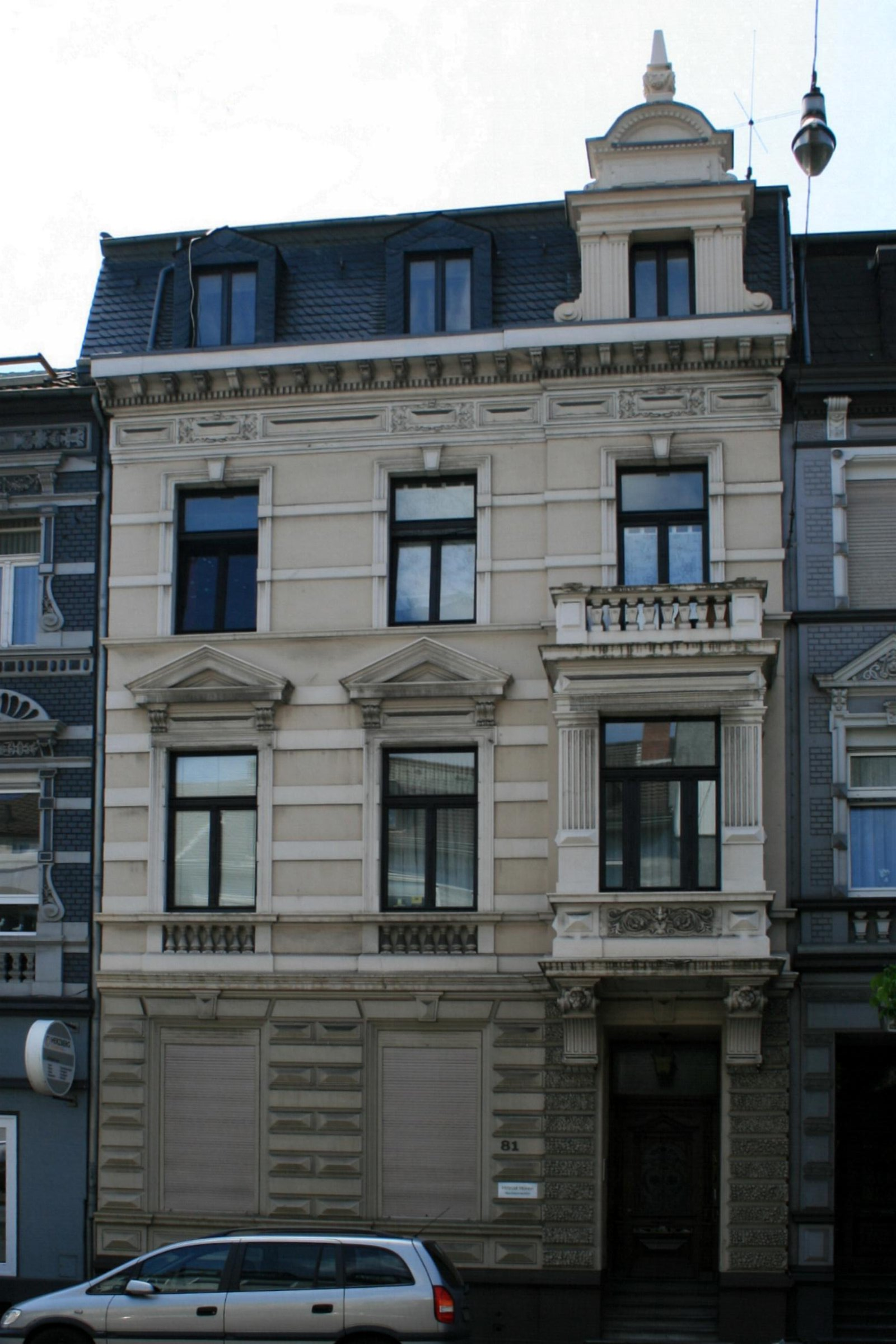 Cultural heritage monument No. B 042 in Mönchengladbach